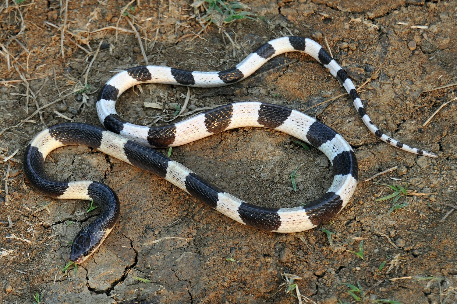 Blue krait (Bungarus candidus), ca. 70cm TL, from Karawang, West Java.